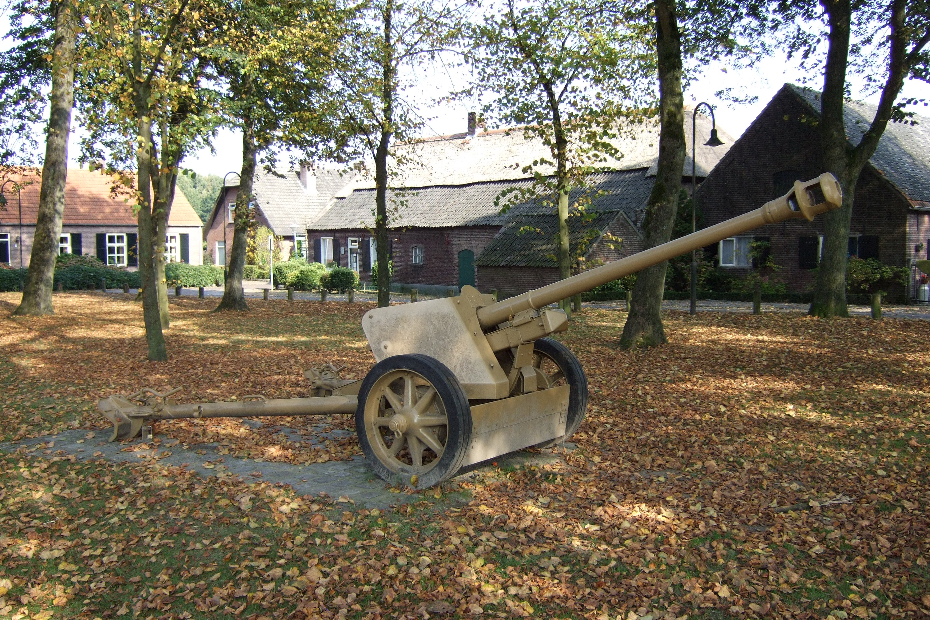 The canon in Zandoerle (Veldhoven).